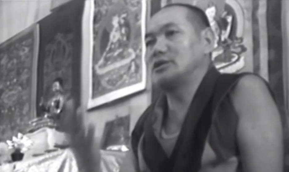 Starting from You - Lama Yeshe